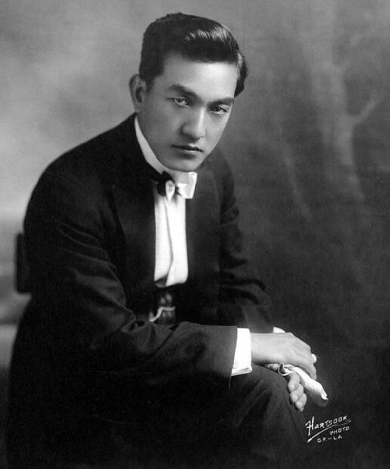 1918 promotional photograph of Japanese actor Sessue Hayakawa (1889–1973).